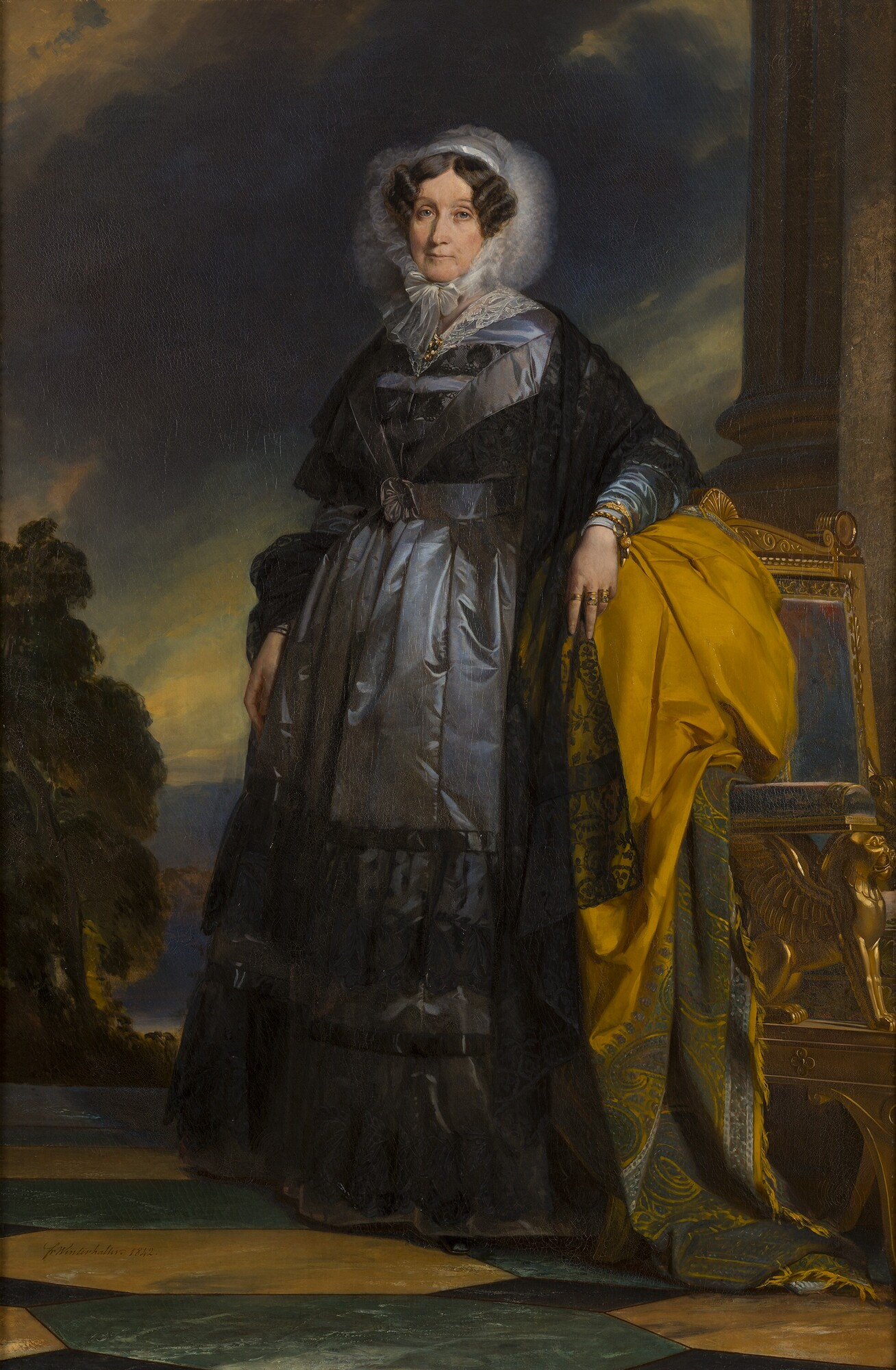 Madame Adelaide d'Orléans